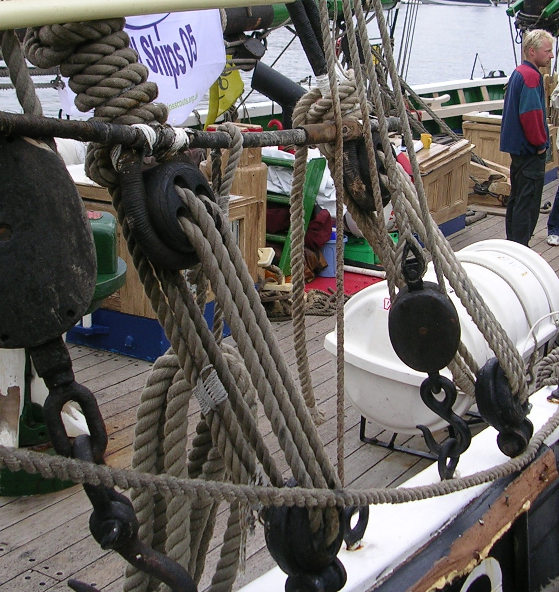 Triple deadeyes used to tension the shrouds on the Lowestoft trawler Excelsior. Photo taken by Pete Verdon during the 2005 Tall Ships' Races